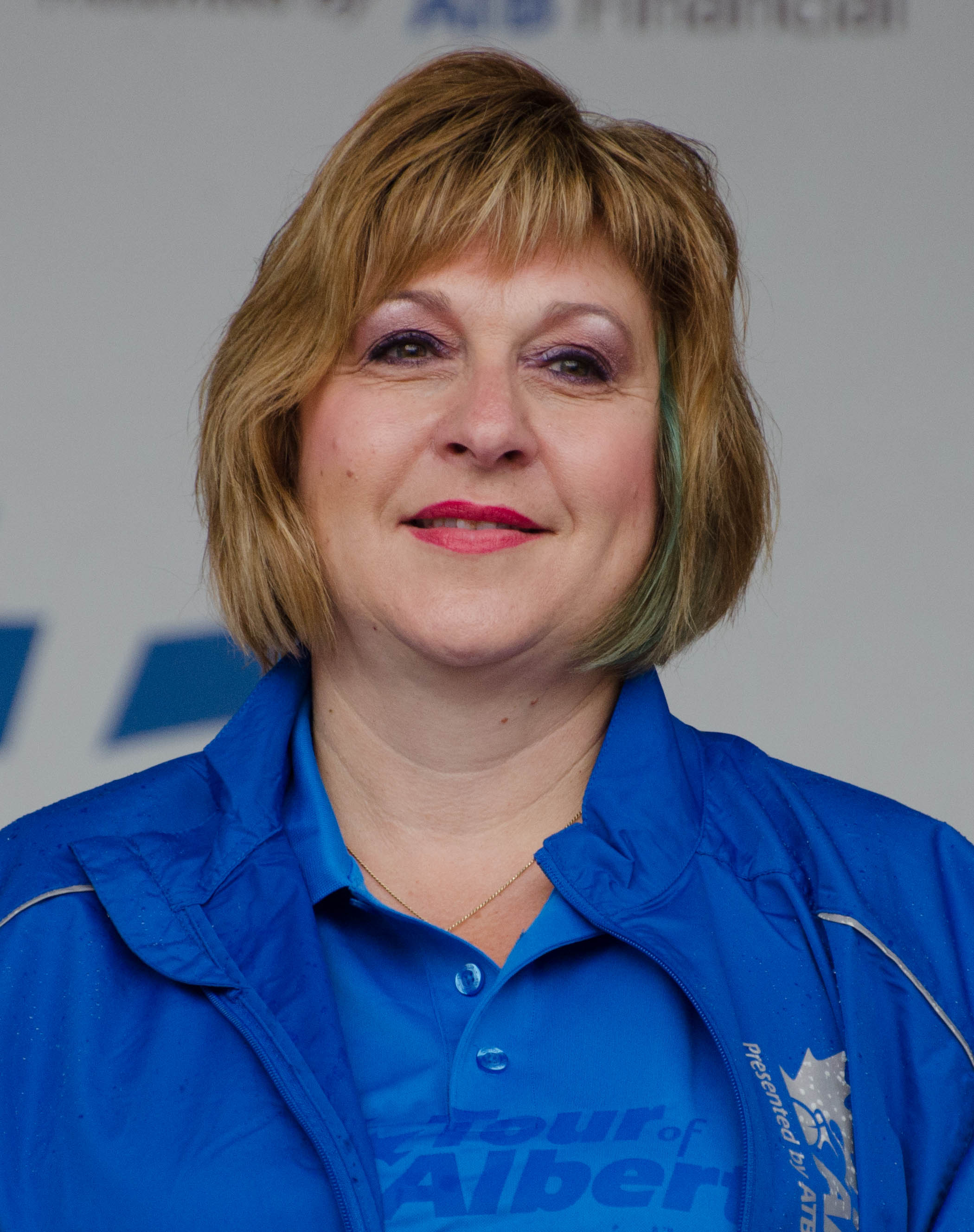 Heather Klimchuk at stage 5 of the 2014 Tour of Alberta